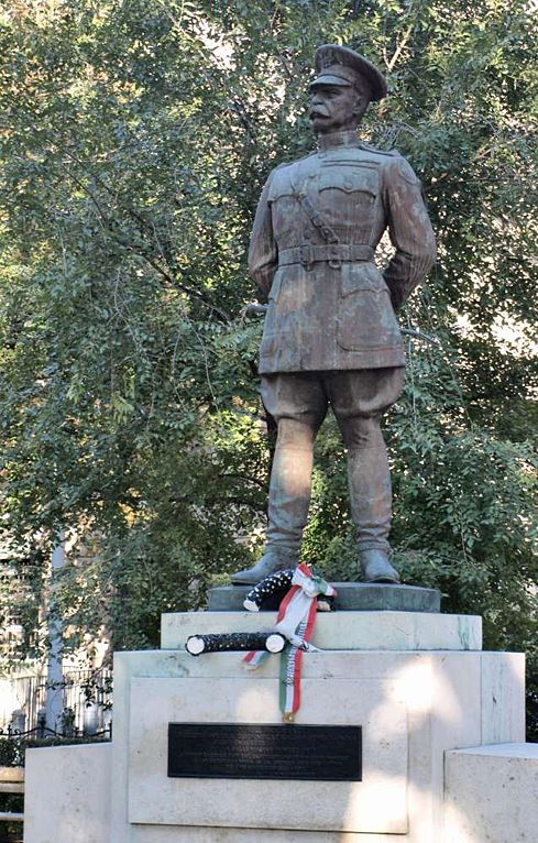 Statue of US Army Major General Harry Hill Bandholz at Szabadság tér (Freedom Square), Budapest, Hungary (near the US Embassy Building)